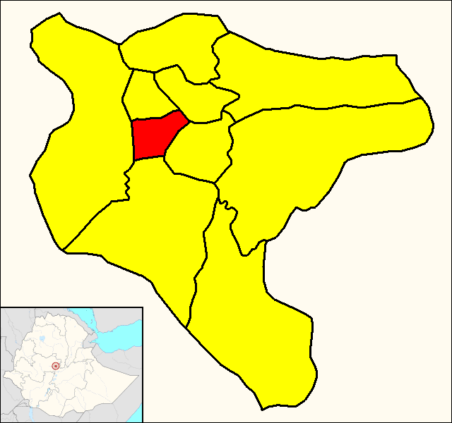 Map of the district (subcity) of Lideta (shown in red) within the city of Addis Ababa (yellow).